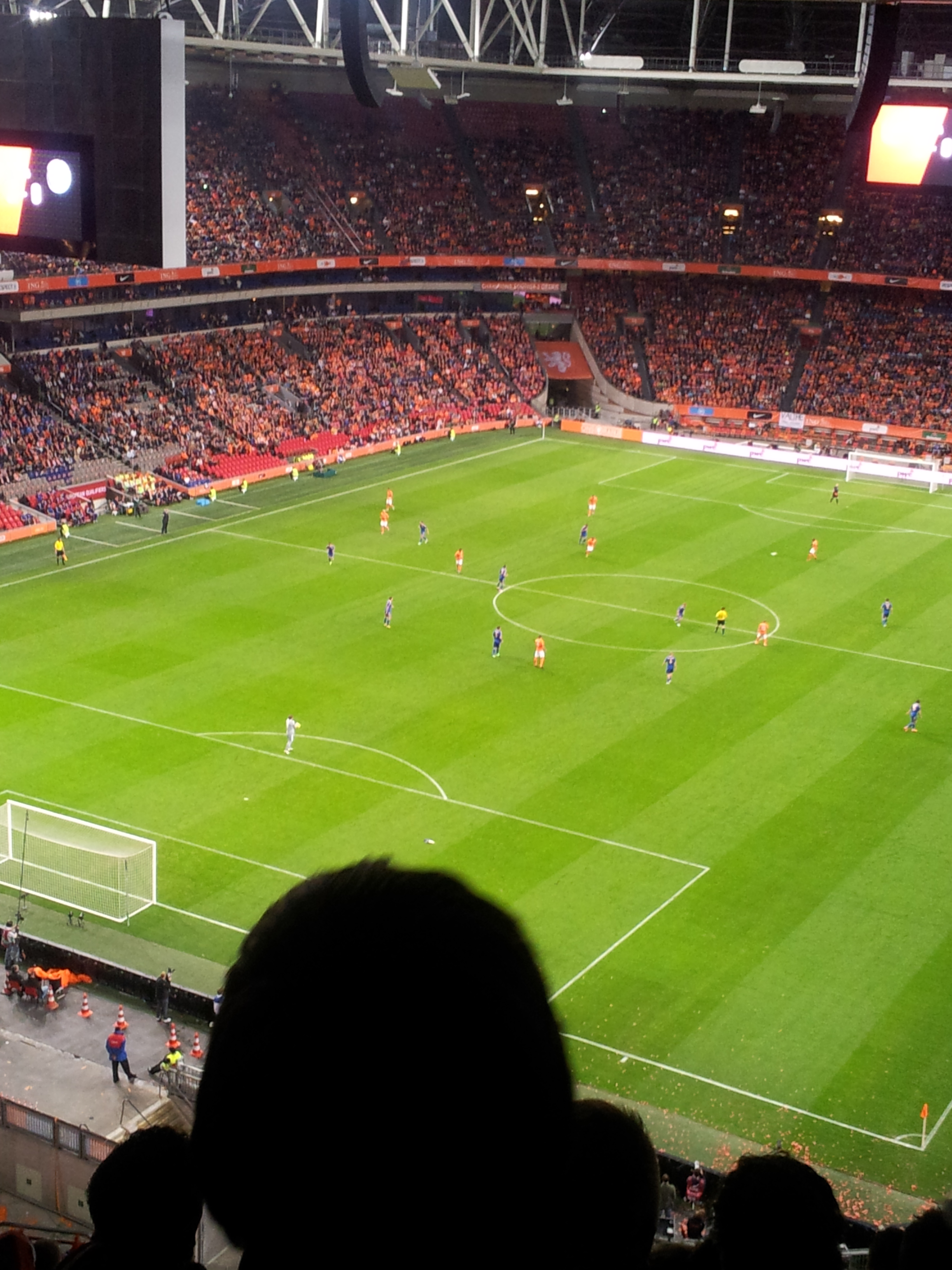 UEFA Euro 2016 qualifying Group A